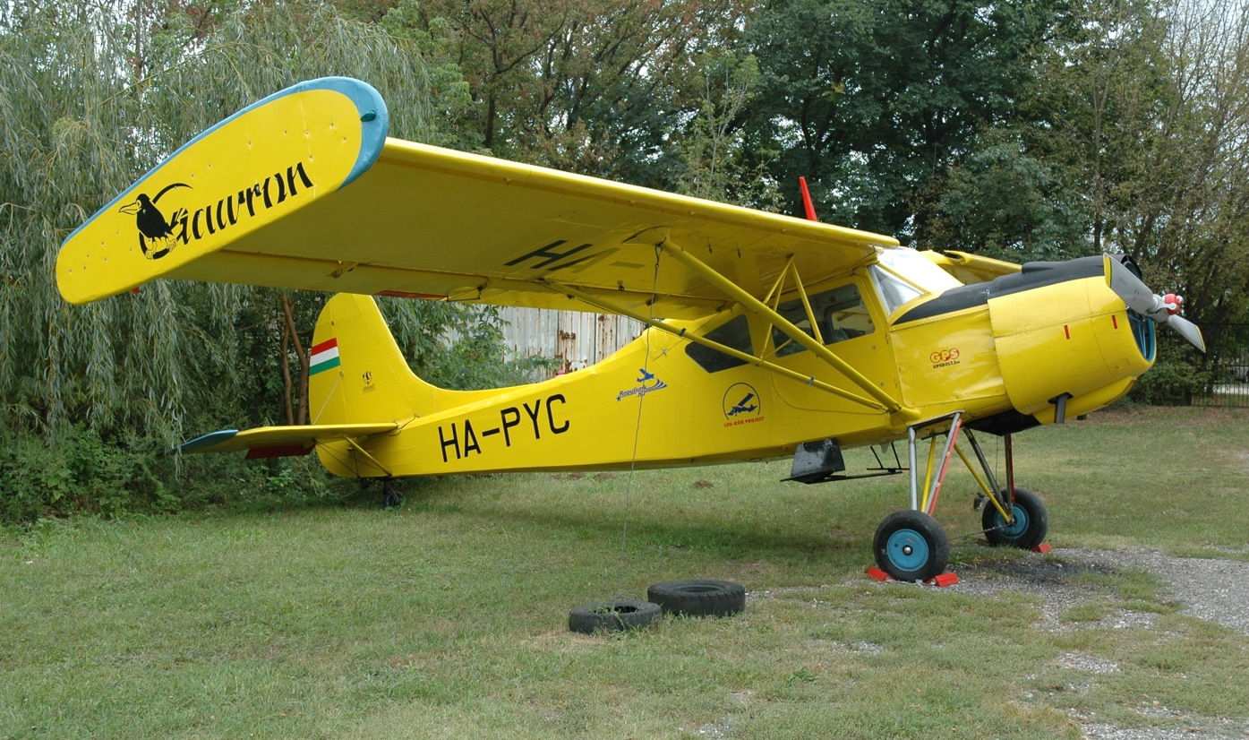 PZL-101 Gawron utility aircraft (reg. HA-PYC, Dunakeszi, Hungary)